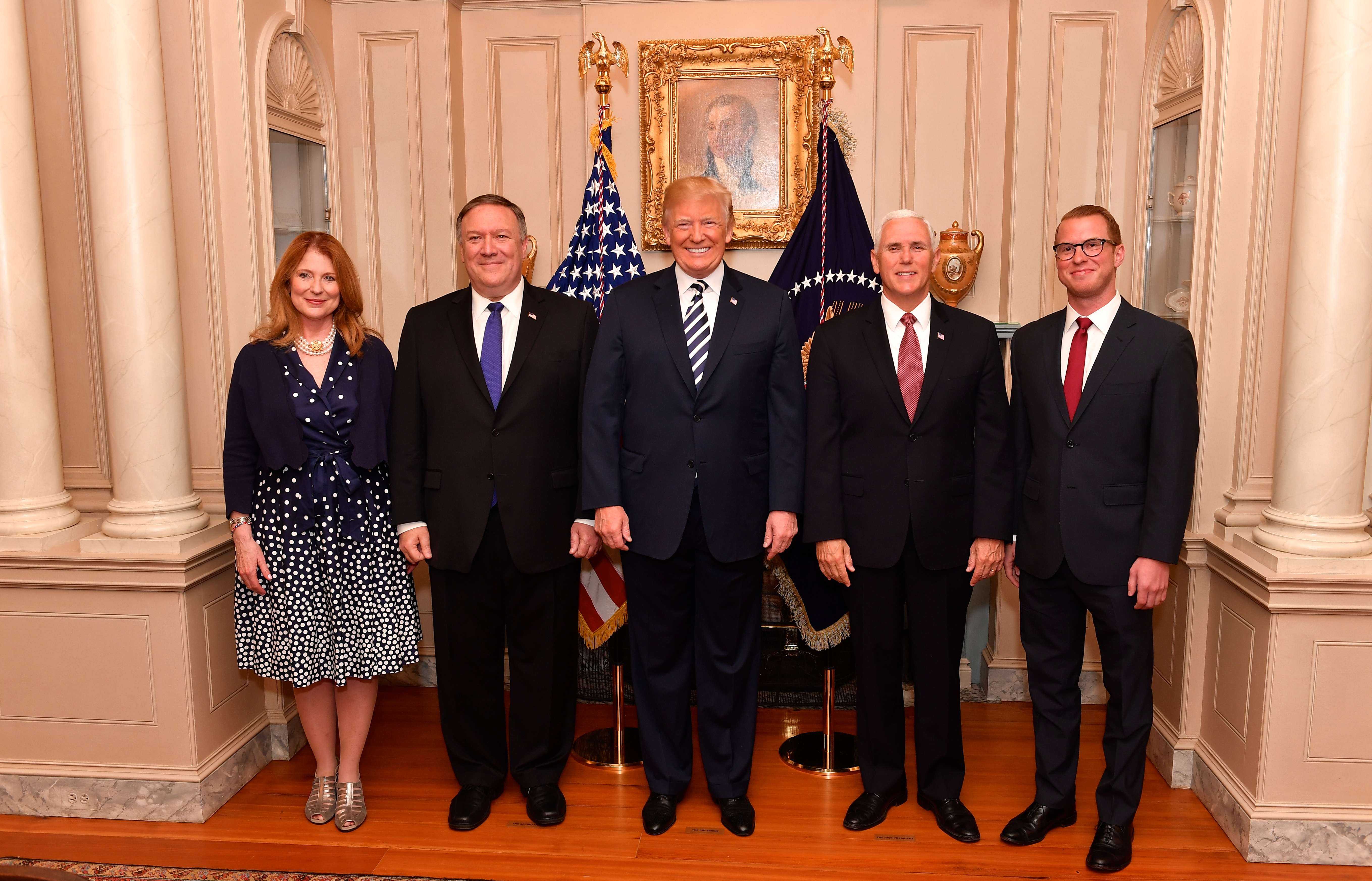 U.S. Secretary of State Mike Pompeo poses for a photo President Donald J. Trump, Vice President Mike Pence, his wife Susan and son Nicholas before his swearing-in ceremony at the U.S. Department of State in Washington, D.C., on May 2, 2018. [State Department photo/ Public Domain]